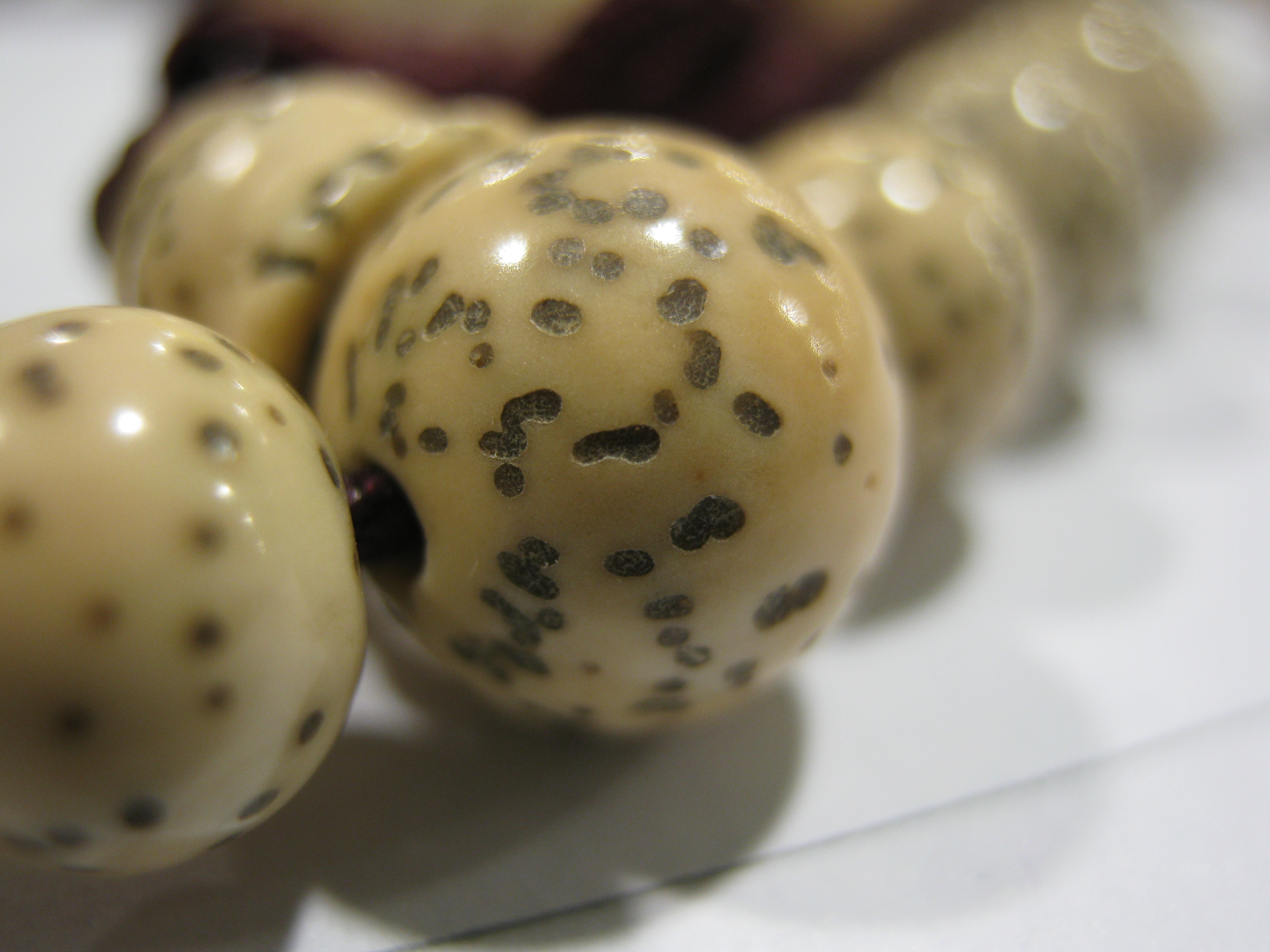 Mala beads made from the seeds of Daemonorops margaritae(星月菩提子)